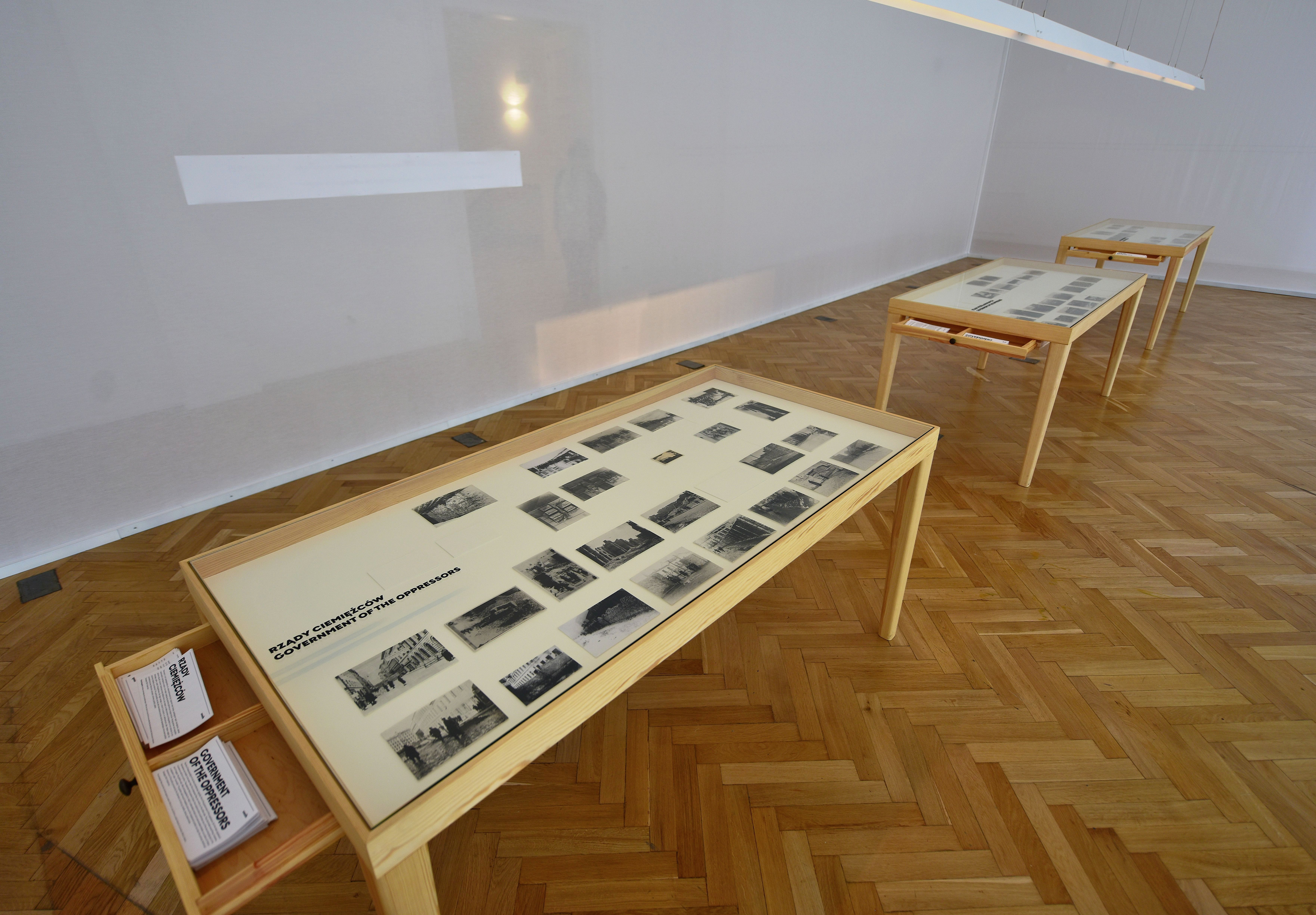 Part of the temporary exhibition Ligh of the Negative with 76 photographs from The Ringelblum Archive taken in the Warsaw Ghetto at the Jewish Historical Instutte in Warsaw